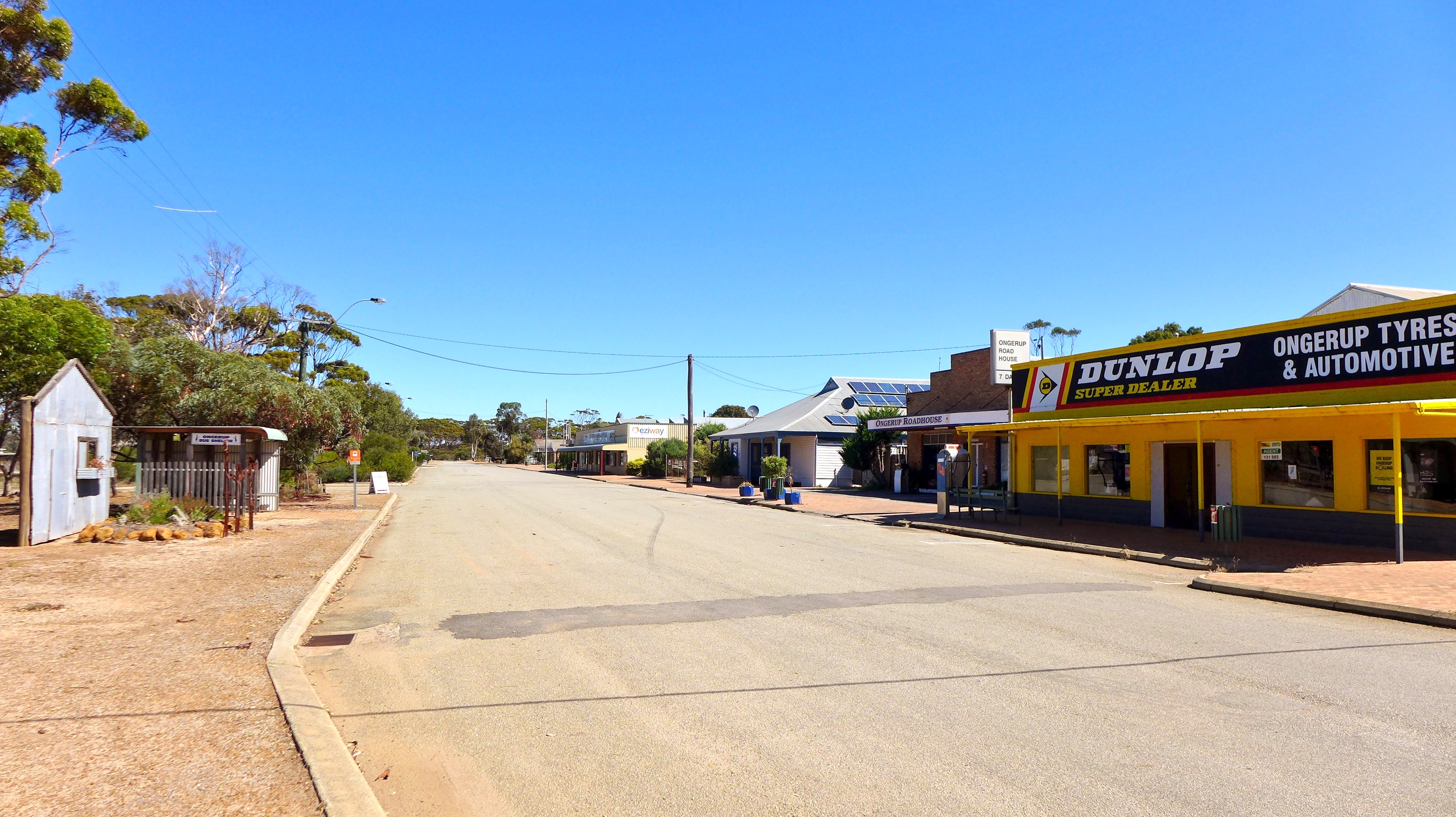 View of Eldridge Street, Ongerup, Western Australia